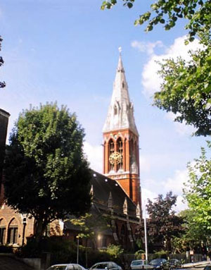 The tower of St John the Divine, Kennington, as seen from Vassall Road, London